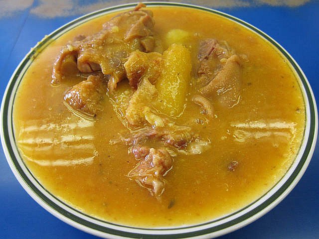 La Isla Cuchifritos Restaurant (Brooklyn, NY) - Mondongo soup with big chunks of pig’s feet with rubbery skin and bones, tripe and plantain. Me So Hungry food blog